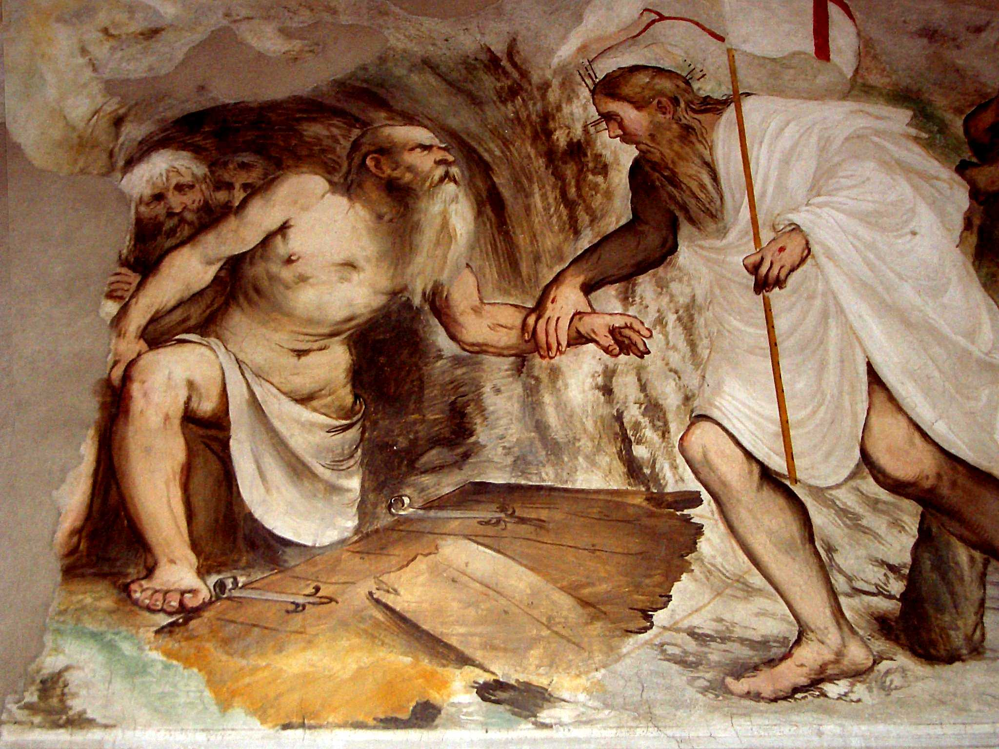 Gerolamo di Romano called Romanino, "Descent of Christ to Limbo" (detail of Christ helping Adam to rise), 1533-34, affresco, Church of Santa Maria della Neve, Pisogne (BS), Italy